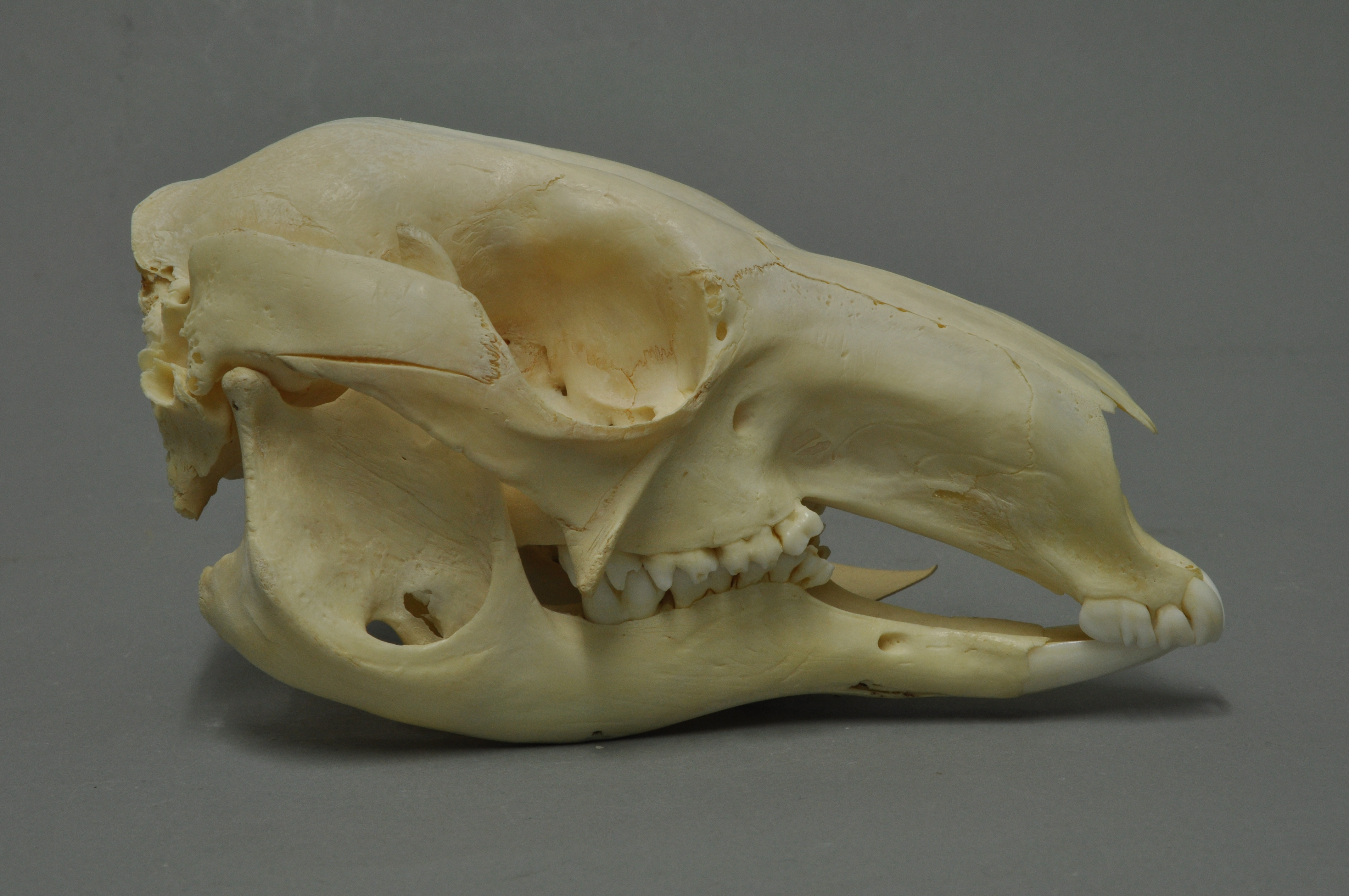 Red kangaroo Macropus rufus , skull, Coll. Museum Wiesbaden